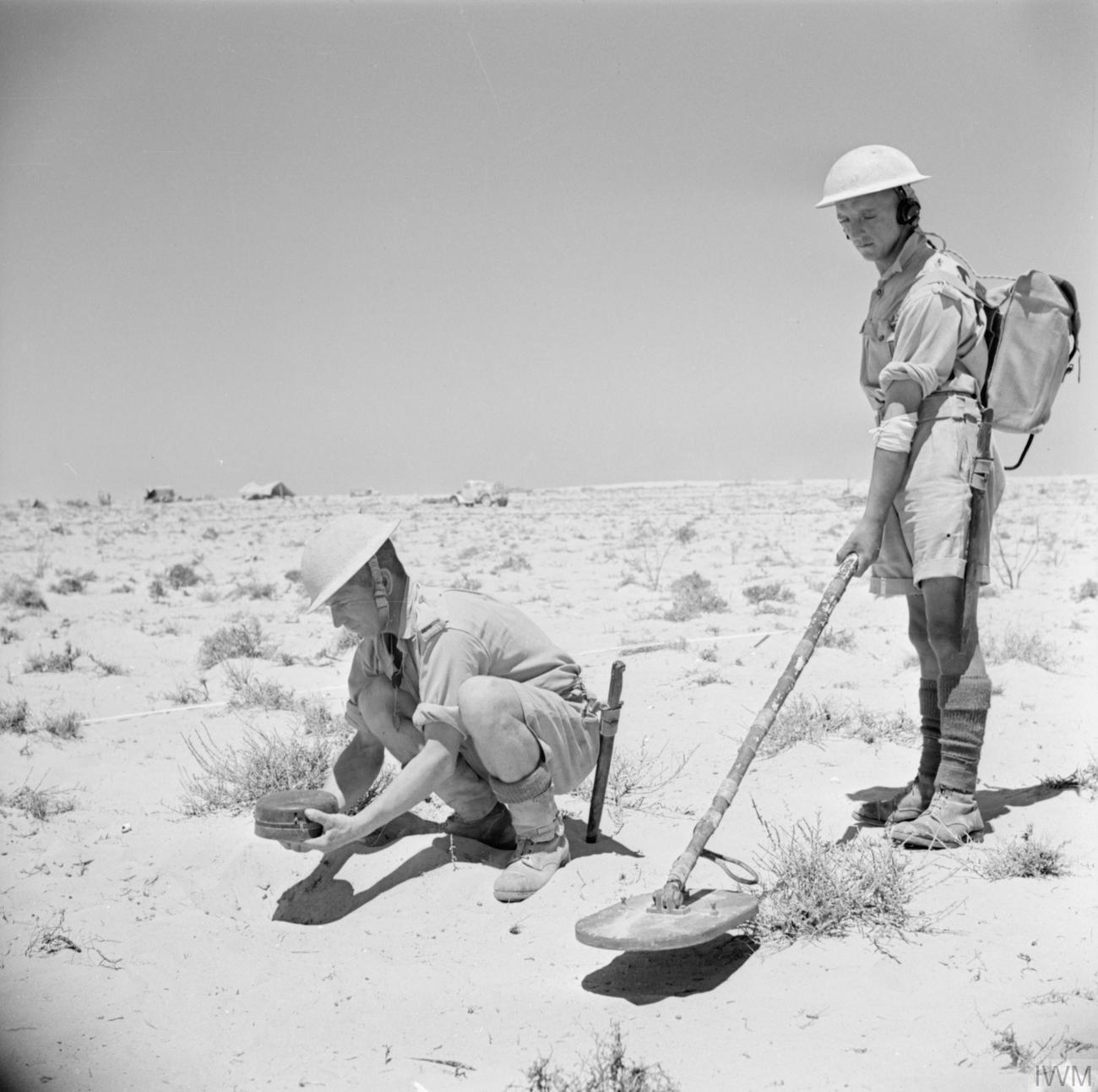 Sappers of the Royal Engineers using a mine-detector, 28 August 1942.